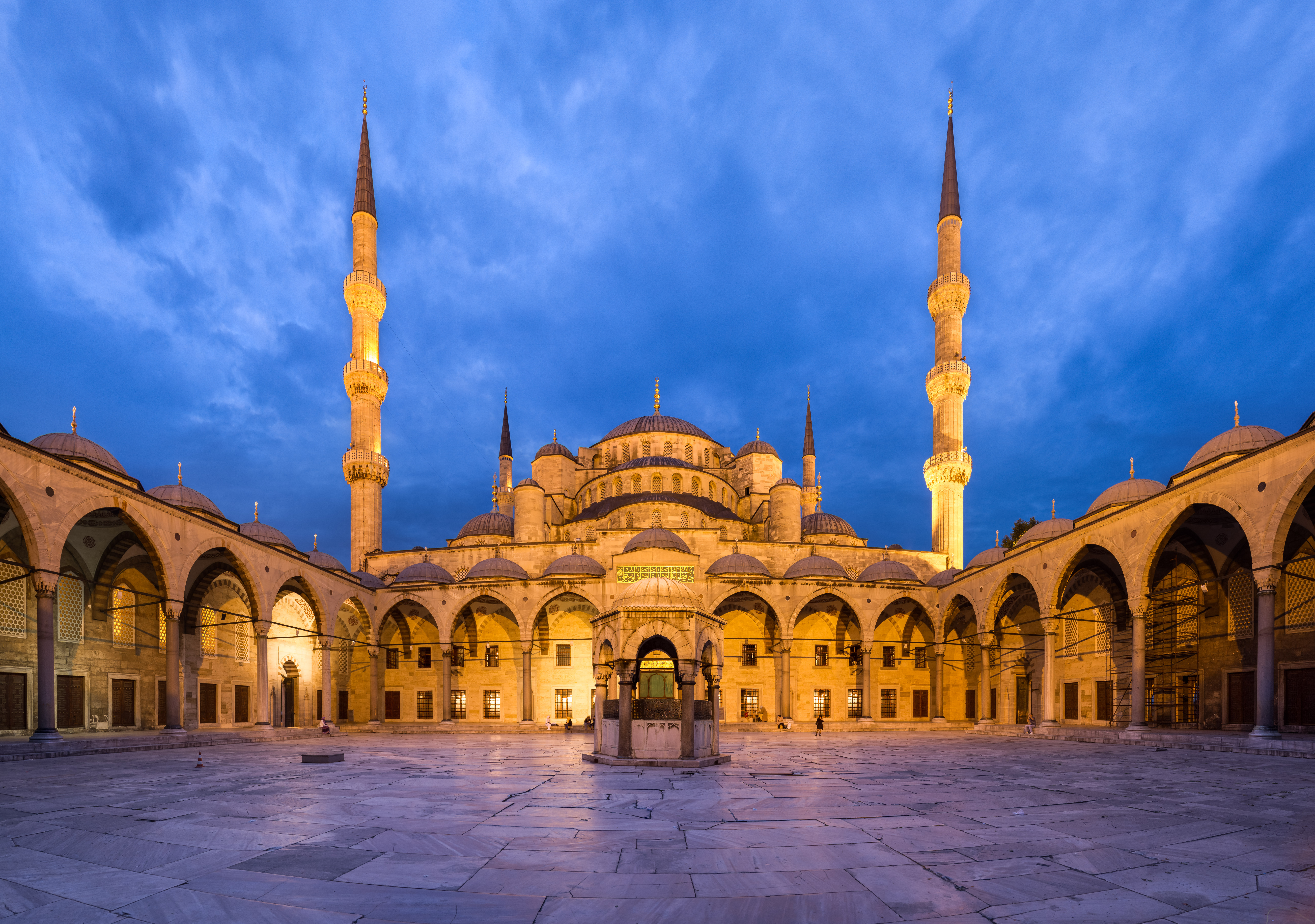 Panoramic view of the courtyard of the Blue Mosque, in Istanbul, Turkey. The courtyard has a square shape, but the mercator projection necessary to squeeze all the field of view into the frame bends the horizontal lines. Panorama created with Hugin.